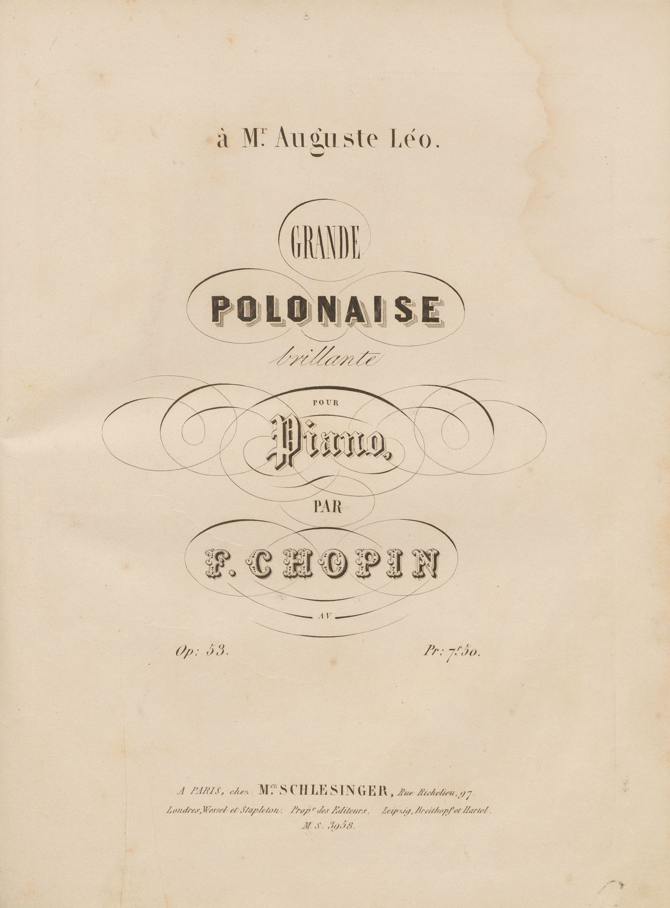 Cover: Polonaises, piano, op. 53, A♭ major, by Frédéric Chopin (1810-1849). Published in Paris: Schlesinger, 1843. *Mus.C4555.B846c, Houghton Library, Harvard University